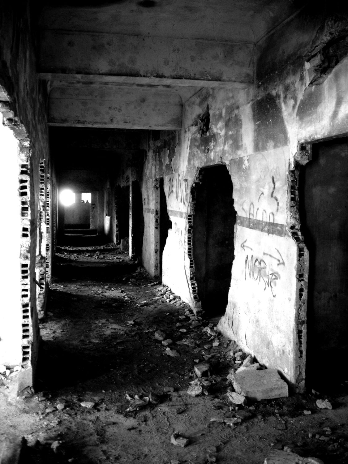 Light at the end of the tunnel